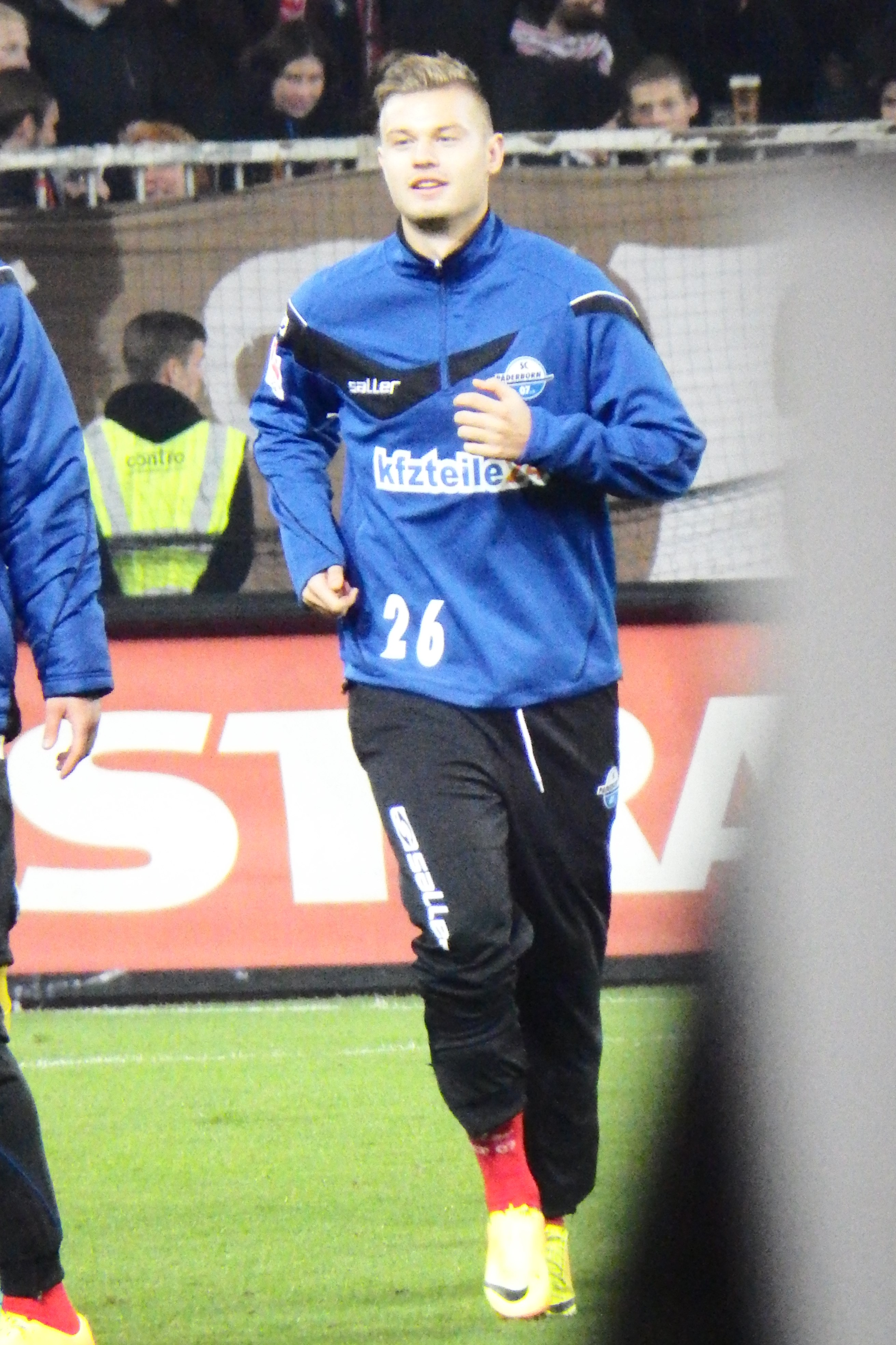 Florian Hartherz as Player of SC Paderborn